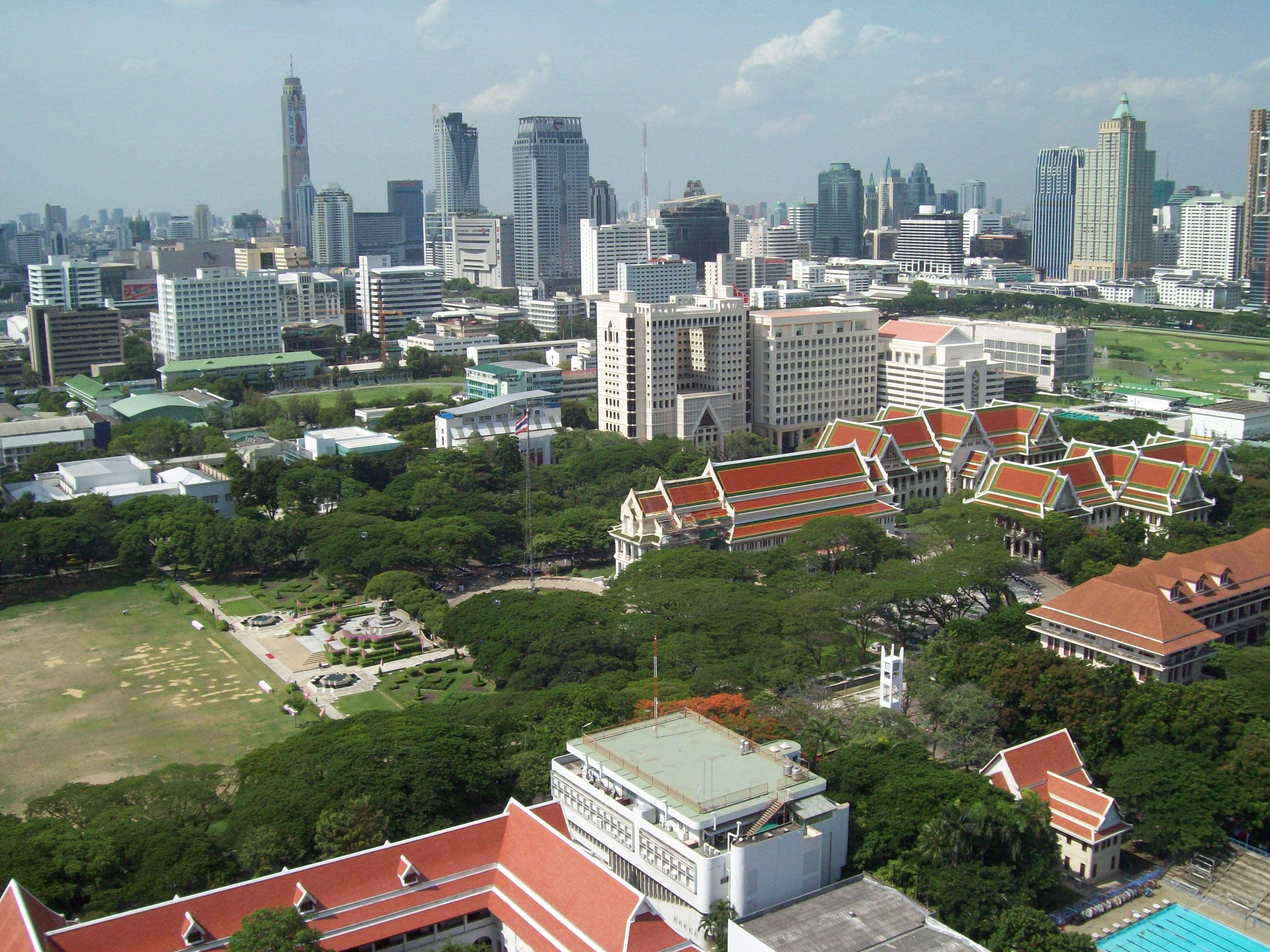 Chulalongkorn University, viewed from 19th floor of Mahamakut Building, Faculty of Science. The center of this image shows CU auditorium. This image was taken before pledging ceremony of students to Rama V,VI's statues.